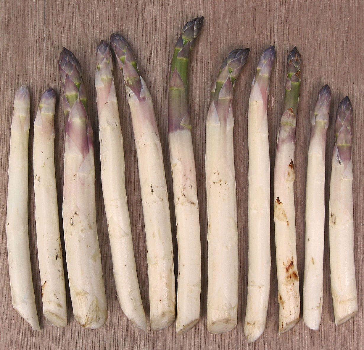 (nl: Asperges half mei) Asparagus officinalis